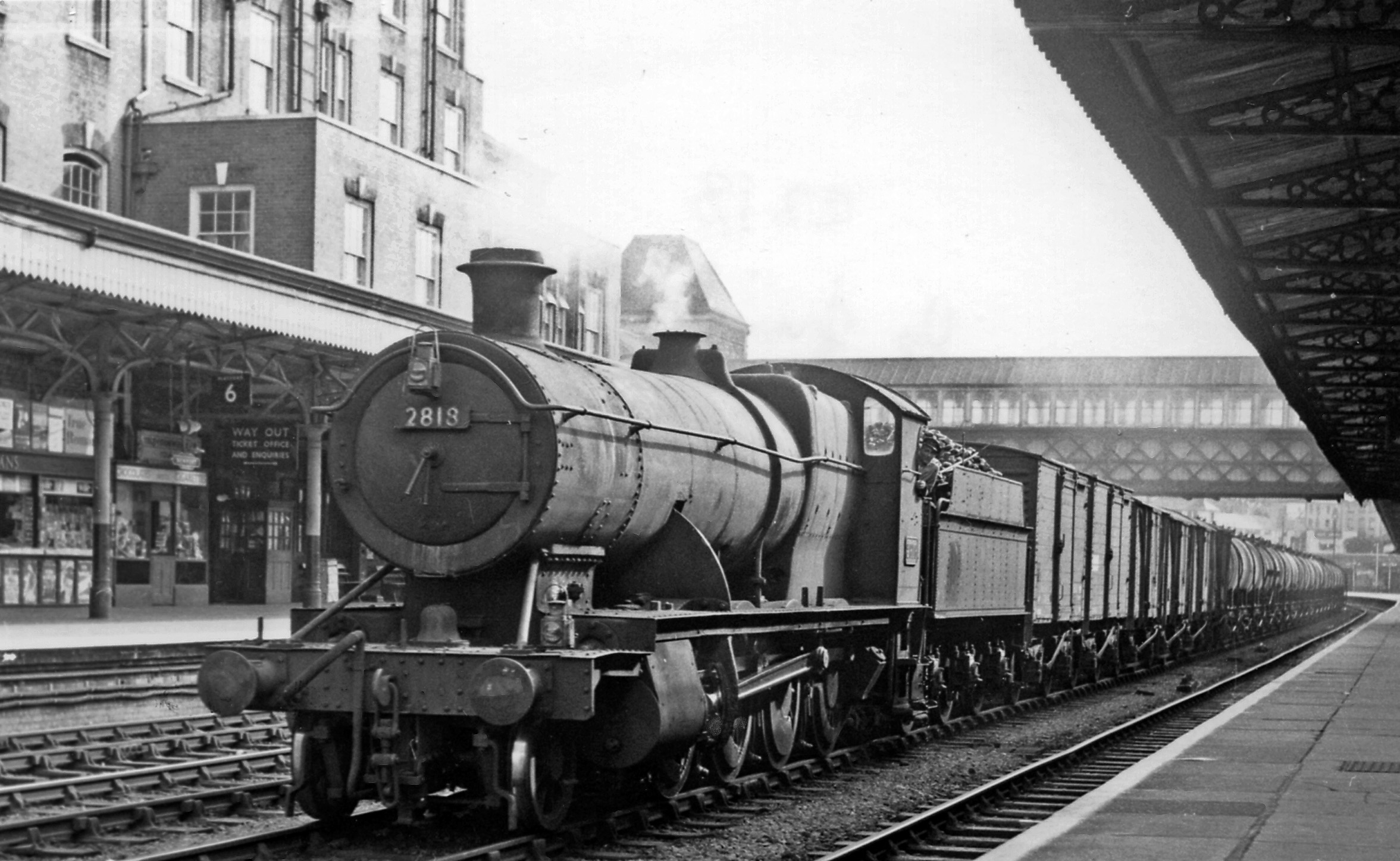 Up freight train passing through Newport High Street station. View SW, towards Cardiff etc. and the Western Valleys; ex-GWR South Wales main line. Fifty years ago and earlier, trains like this were passing through Newport constantly. This Class F train is headed by an original Churchward '2800' 2-8-0 (No. 2818, built 12/05), about 50 years older than the 2-10-0 depicted in ST3088 : Up freight train at Newport High Street Station on the same day. This particular example of a '2800' is preserved at the National Railway Museum.